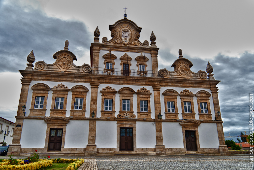 Council Palace in Mirandela, Bragança, Tras os Montes.